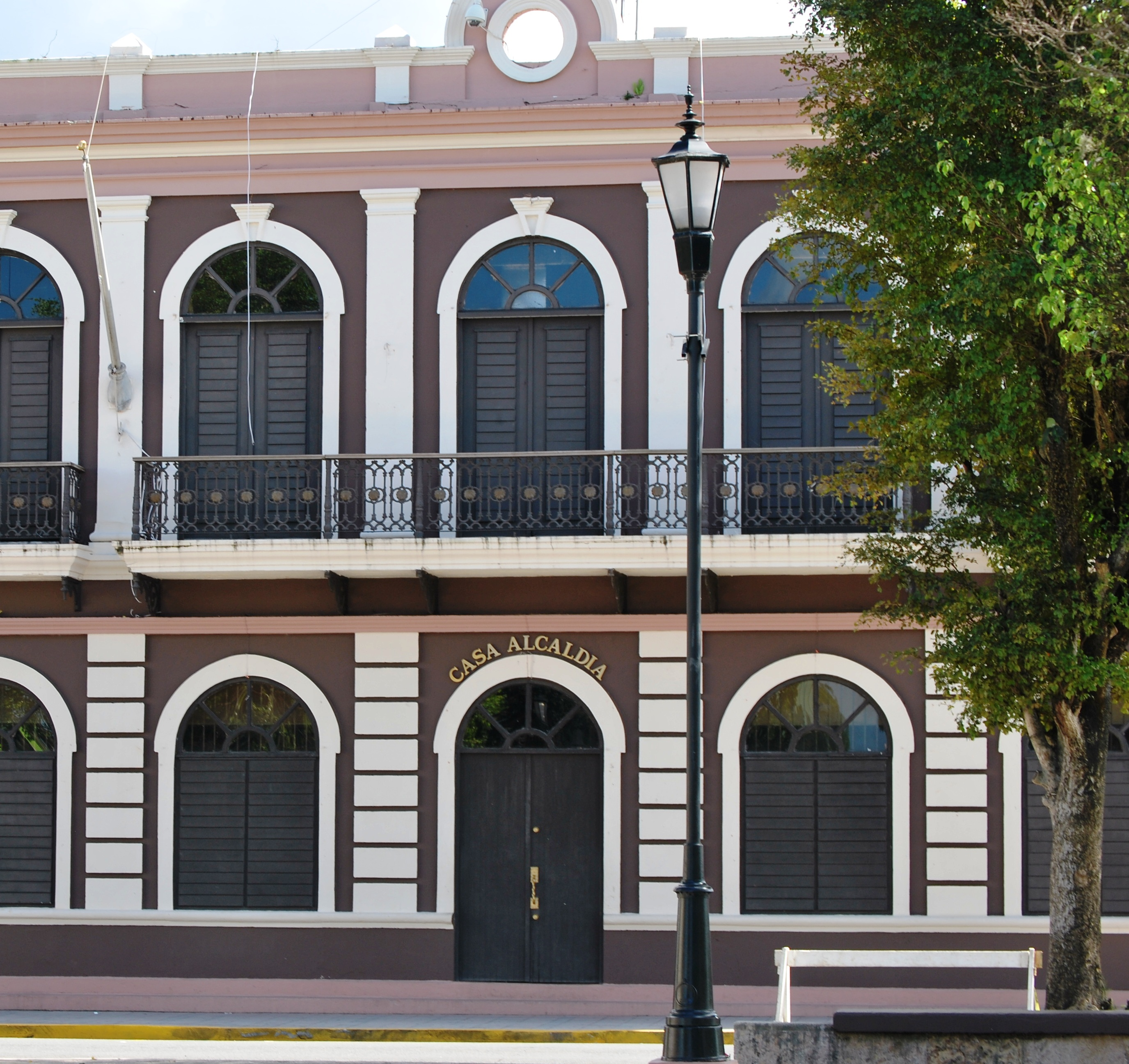 Canovanas City Hall in Puerto Rico, 2013